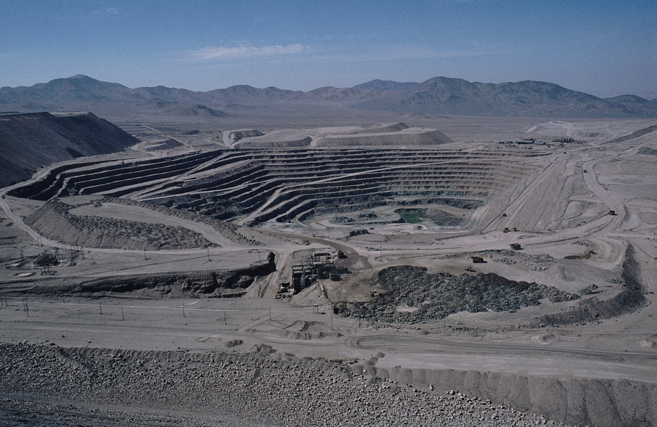 Coppermine Chuquicamata, Chile